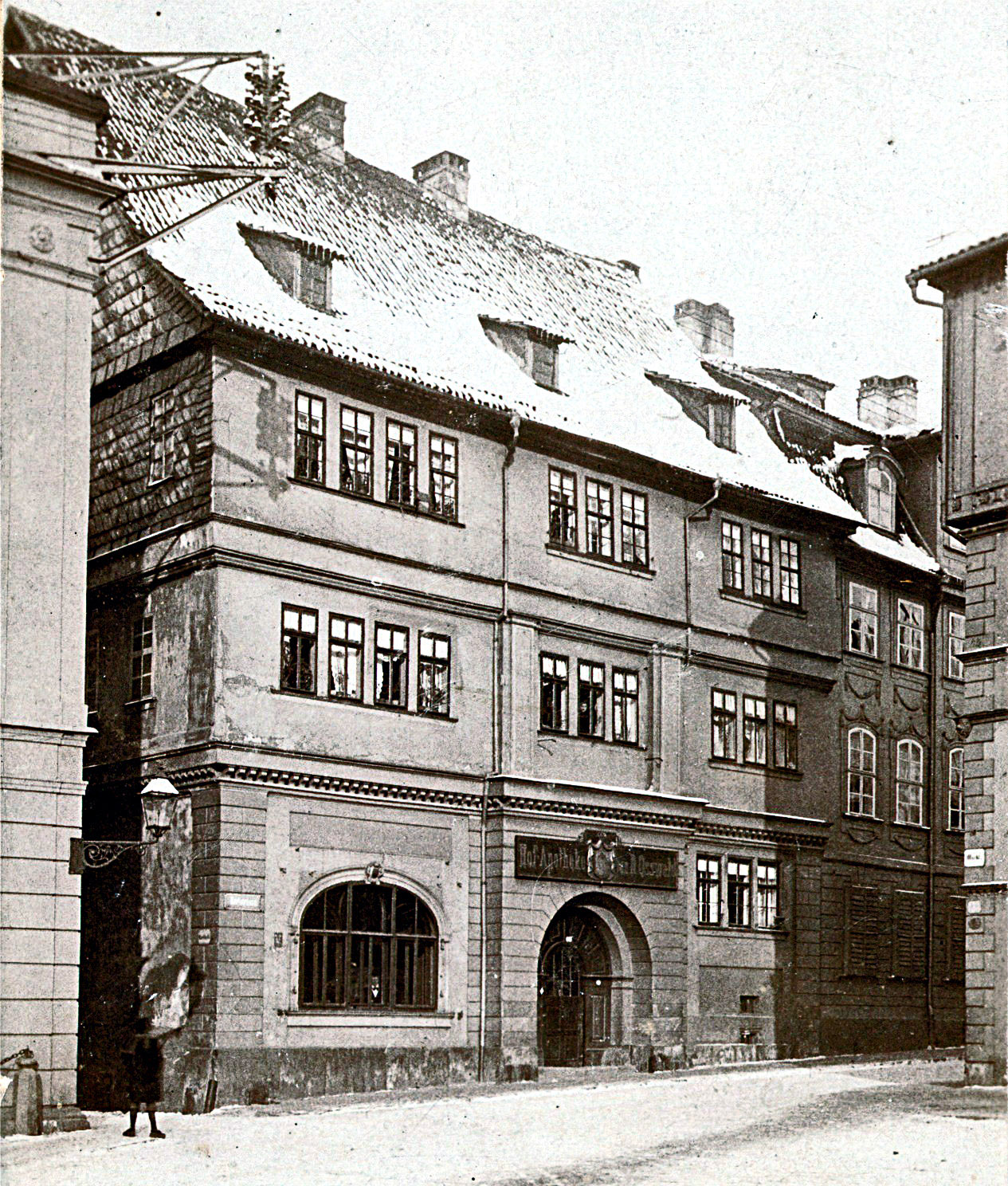 "Hof-Apotheke" before restauration